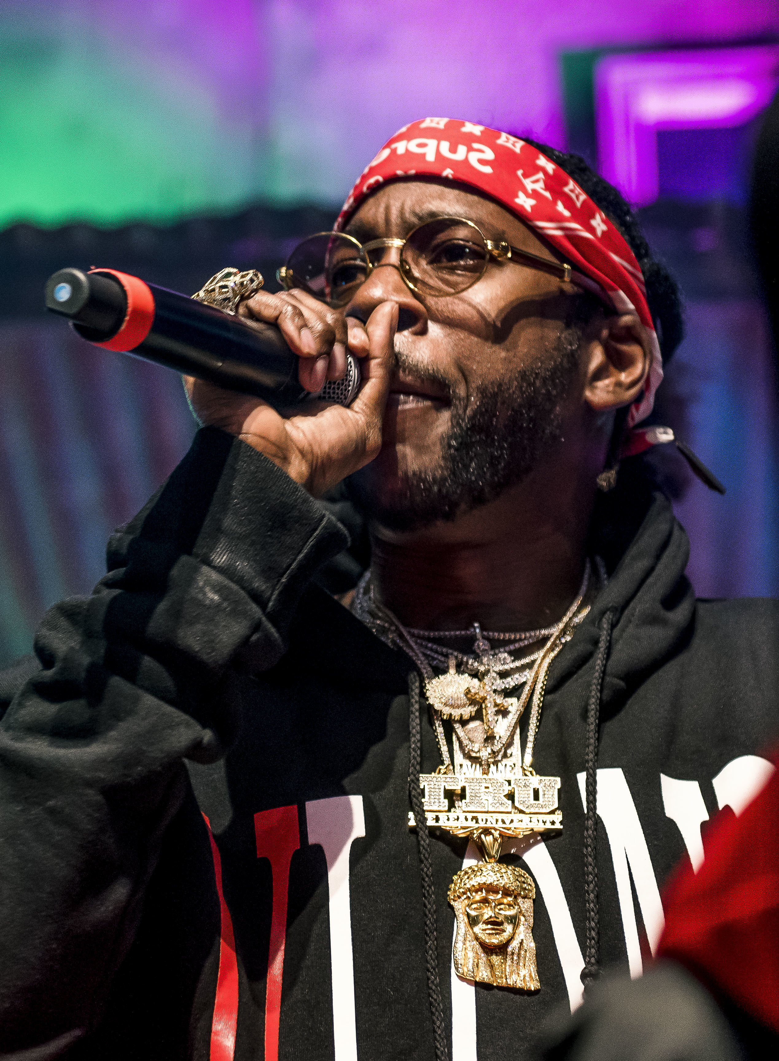 2 Chainz performing live at Pretty Girls Like Trap Music Tour